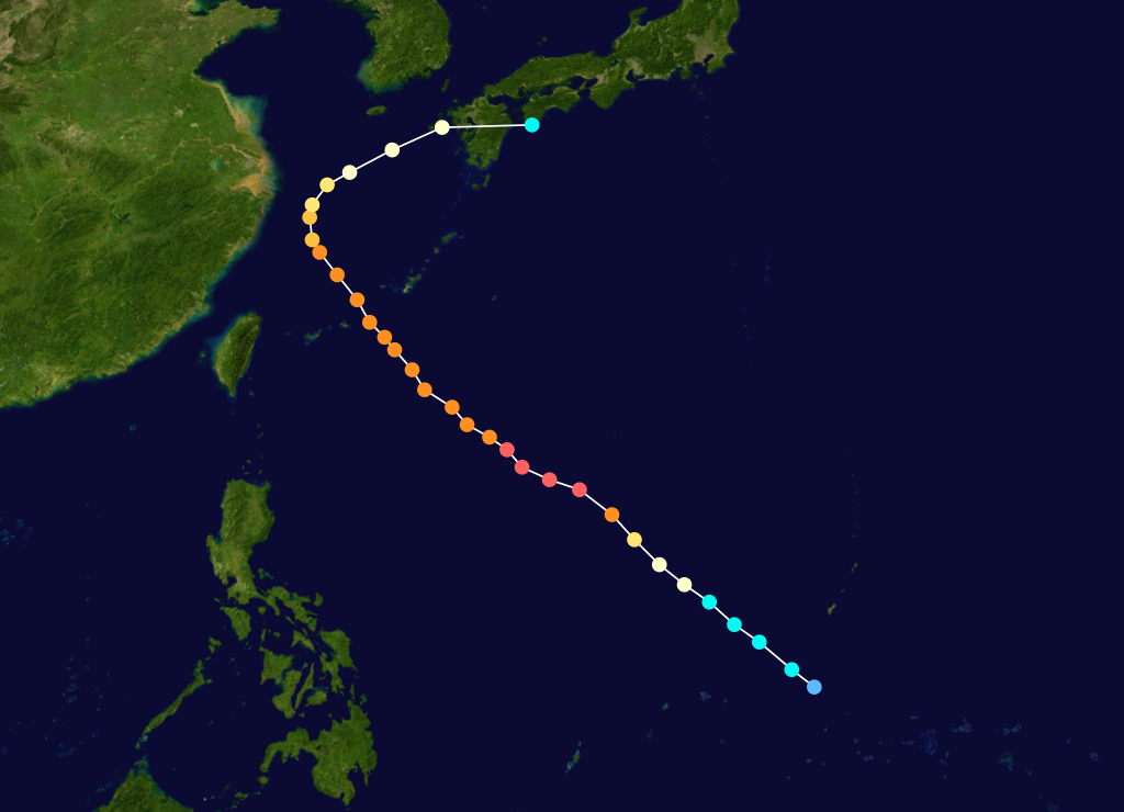 Typhoon Forrest 1983 track. Uses the color scheme from the Saffir-Simpson Hurricane Scale.